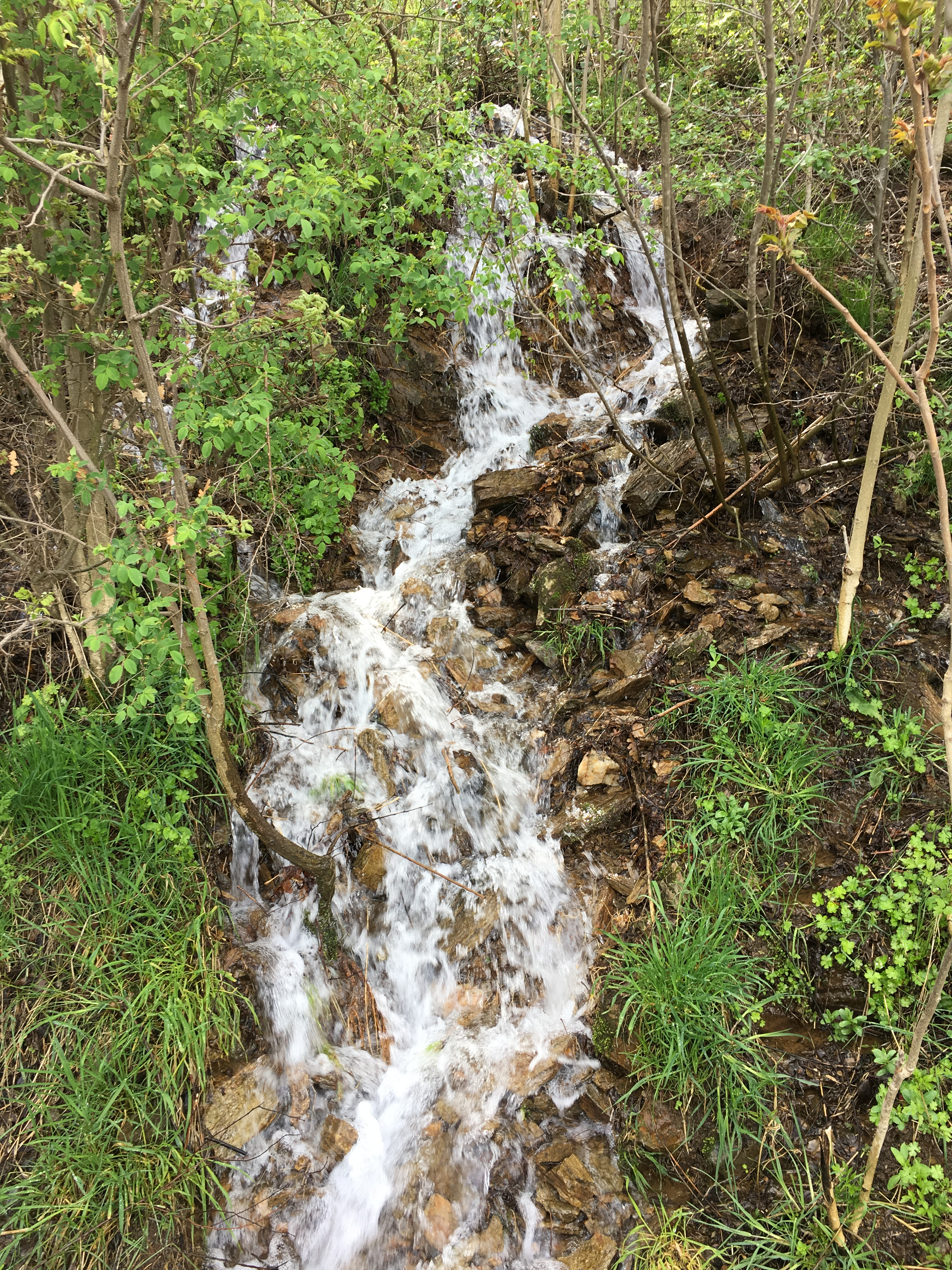 A waterfall near the village of Košari